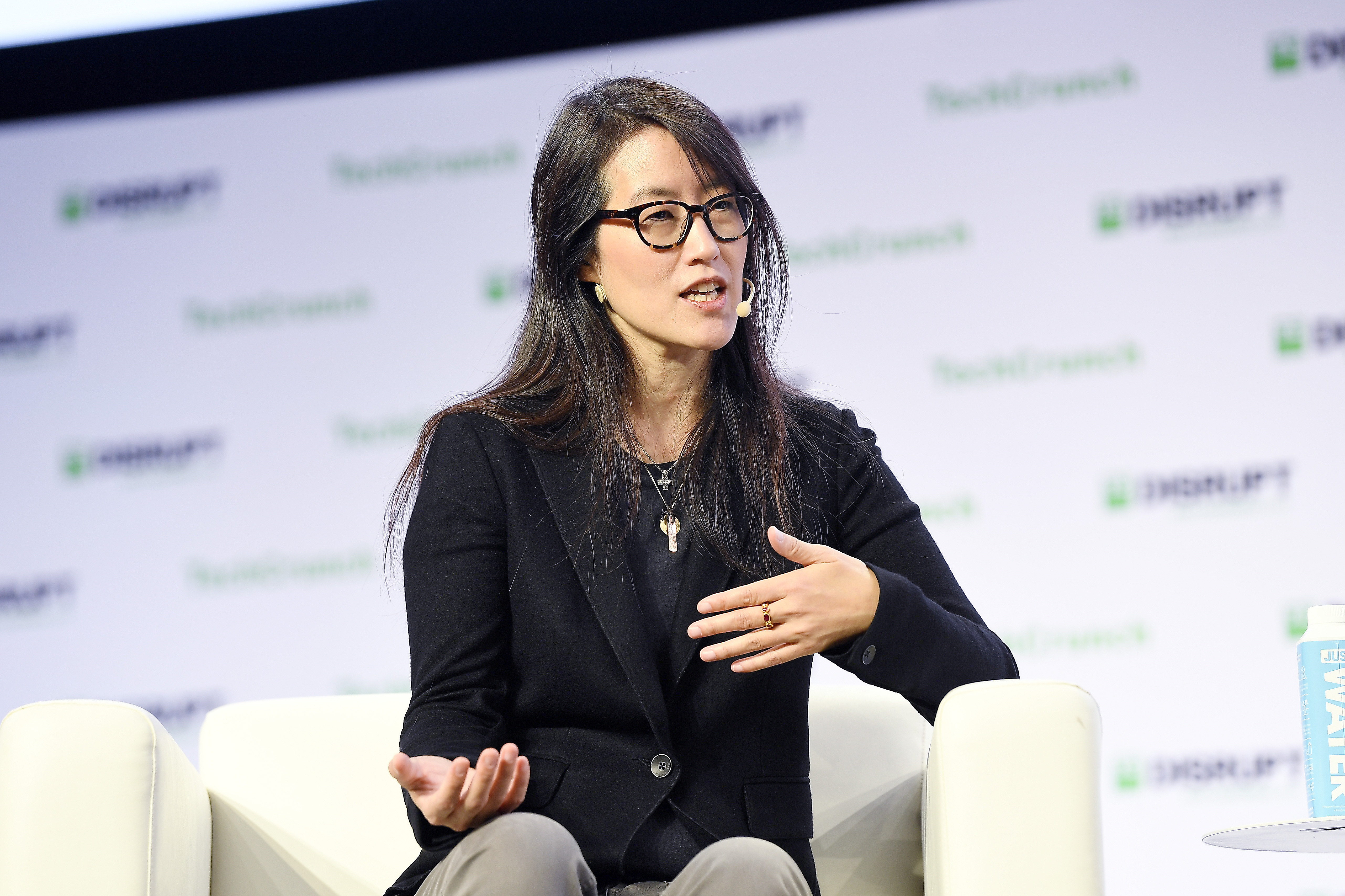 SAN FRANCISCO, CALIFORNIA - OCTOBER 04: Project Include Co-Founder & CEO Ellen Pao speaks onstage during TechCrunch Disrupt San Francisco 2019 at Moscone Convention Center on October 04, 2019 in San Francisco, California. (Photo by Steve Jennings/Getty Images for TechCrunch)